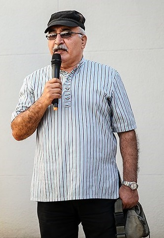 احمد طالبی‌نژاد در مراسم تشییع جنازه ایرج کریمی